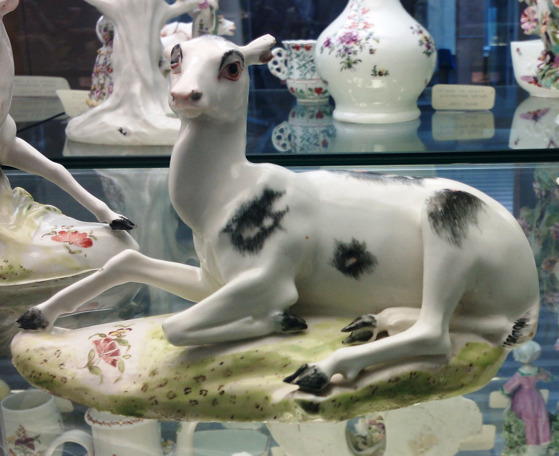 Doe 1750-1755 Derby Porcelain in Derby Museum